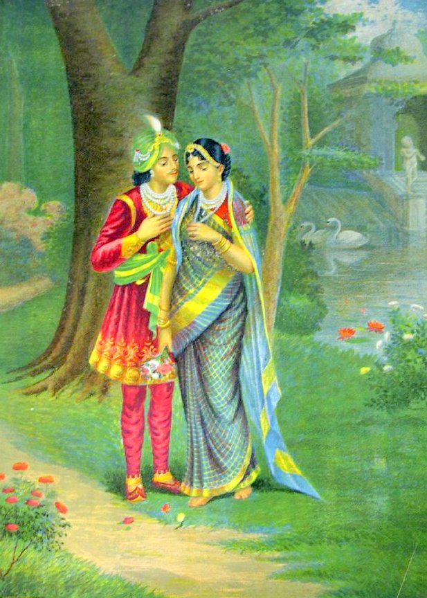 "Aniruddha and Usha stand in a forest with a western influenced landscape scene, complete with a pair of swans floating in a pond, in the background. Usha fell in love with a young man in a dream, and enlisted the help of an artist to draw his likeness and help her find him. That man was identified as Aniruddha, the grandson of Krishna, and the two were secretly married."